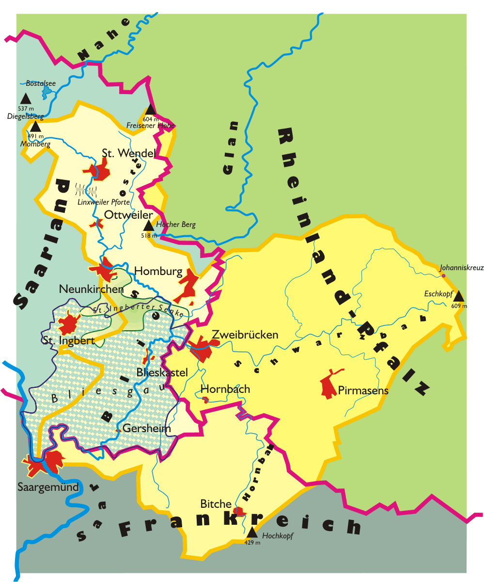 Map showing the River Blies and the Bliesgau